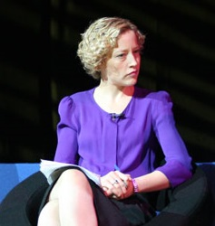 English journalist Cathy Newman at NHS Confederation panel session 'Building the new system'.